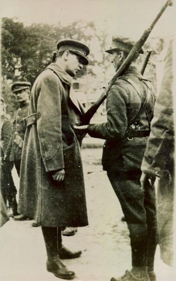 General Michael Collins inspects a soldier.